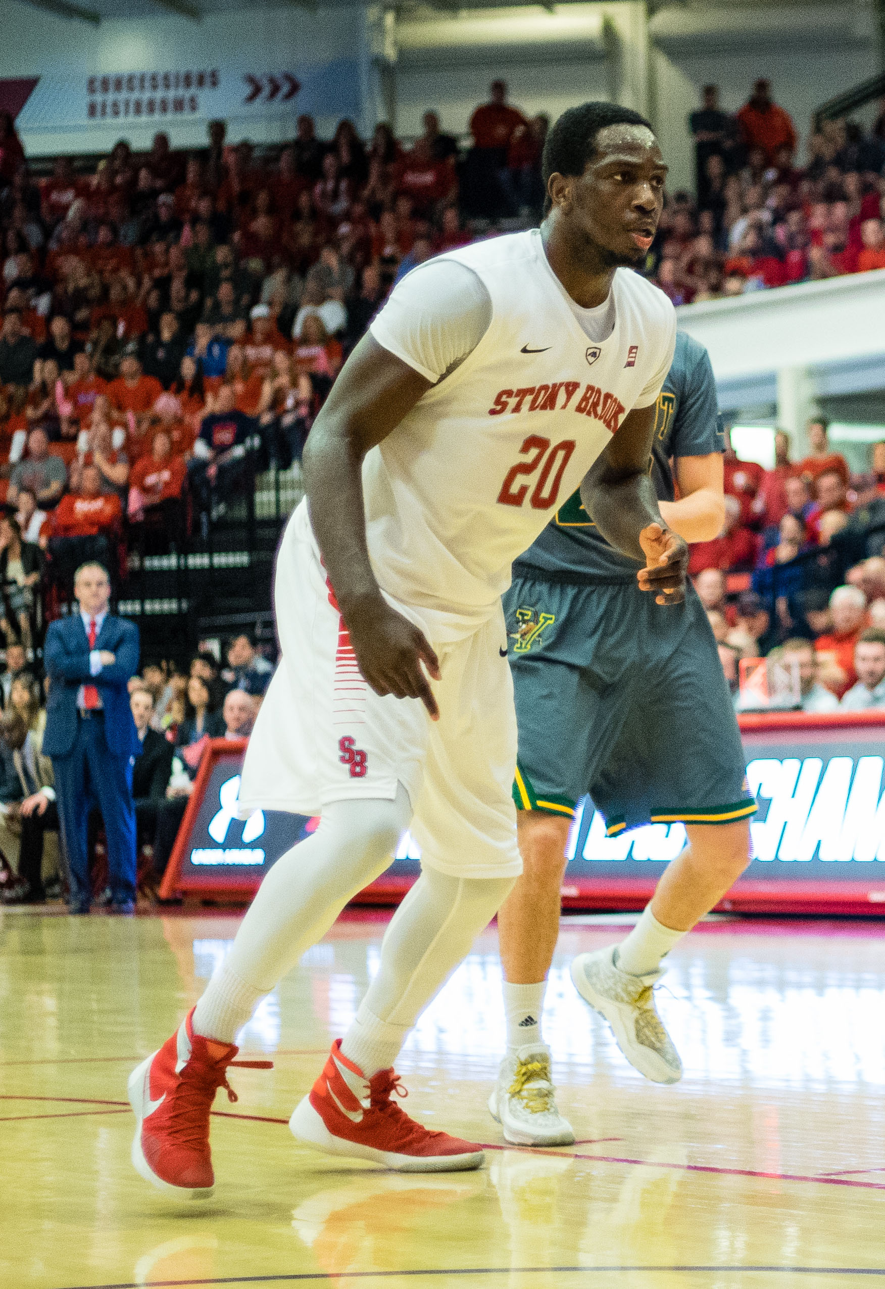 Jameel Warney playing for the Stony Brook Seawolves in 2016.